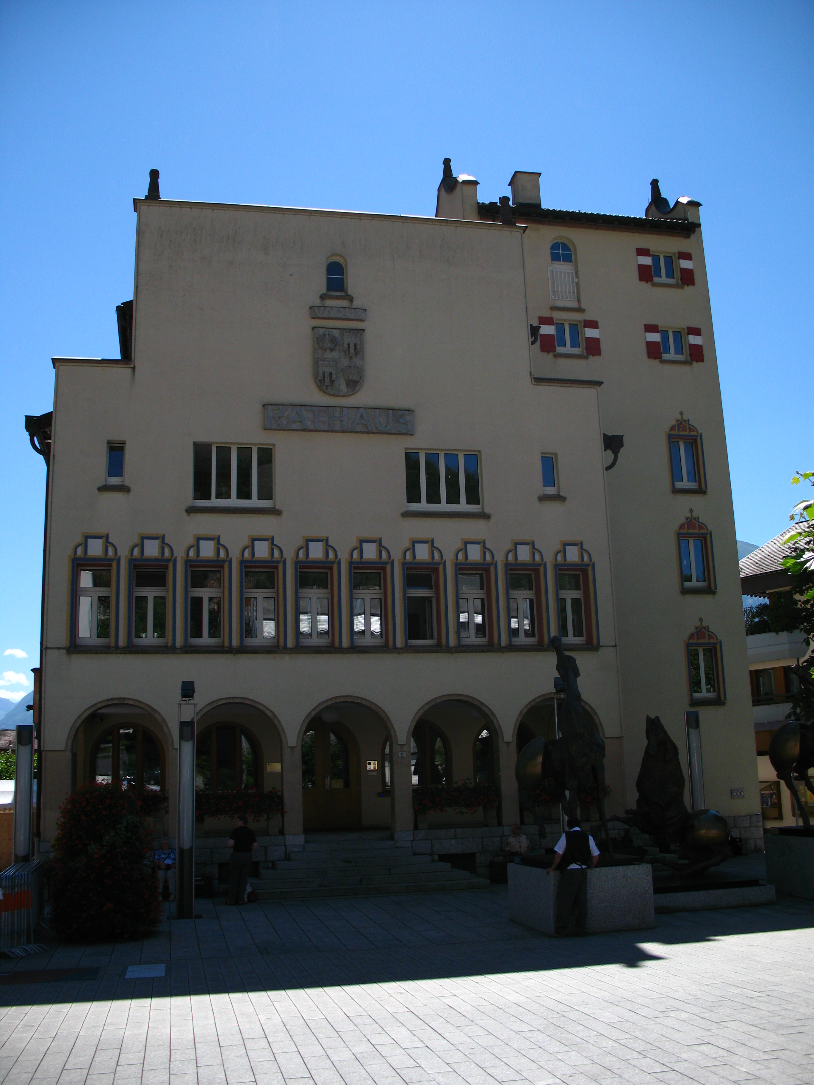 City Hall, Vaduz, Liechtenstein